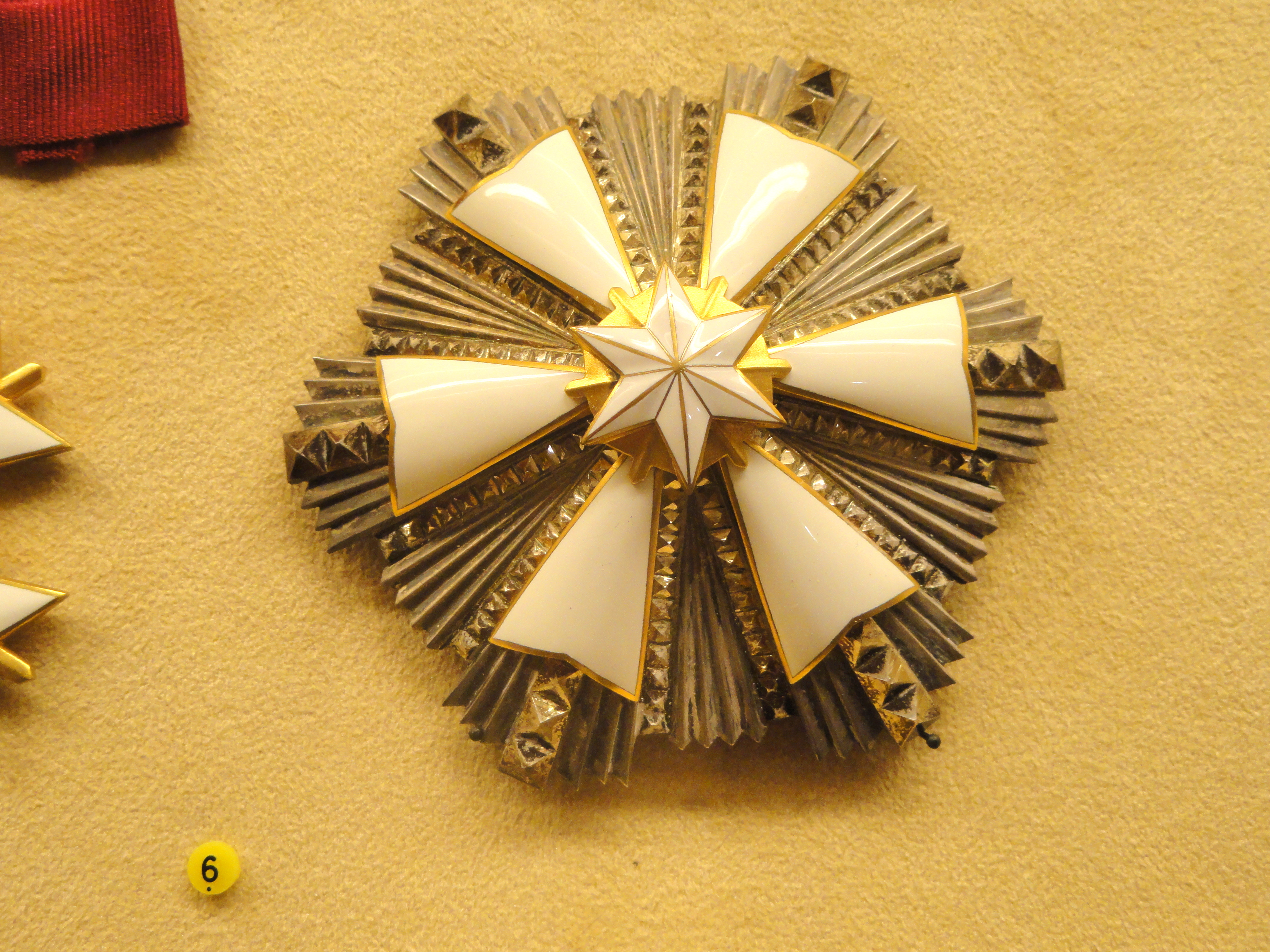 Award in the National Museum of Finland, Helsinki, Finland. This artwork is in the public domain because the artist(s) died more than 70 years ago.